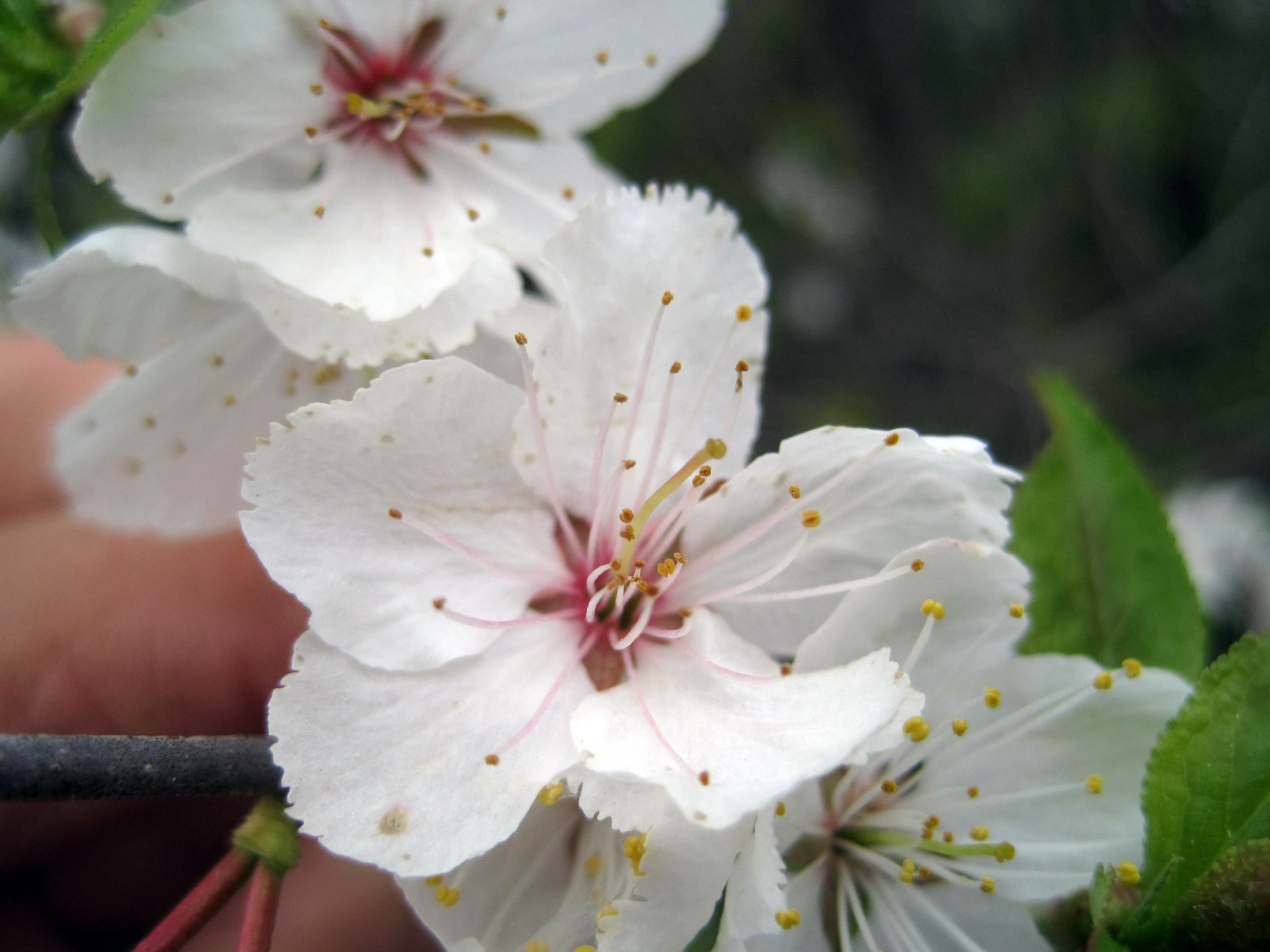 Canadian plum - Prunus nigra Aiton Descriptor: Flower(s) Description: Canada Plum (Prunus nigra); May 22 Image type: Field Image location: Whitefish Island, Sault Ste. Marie, Ontario, Canada - See more at